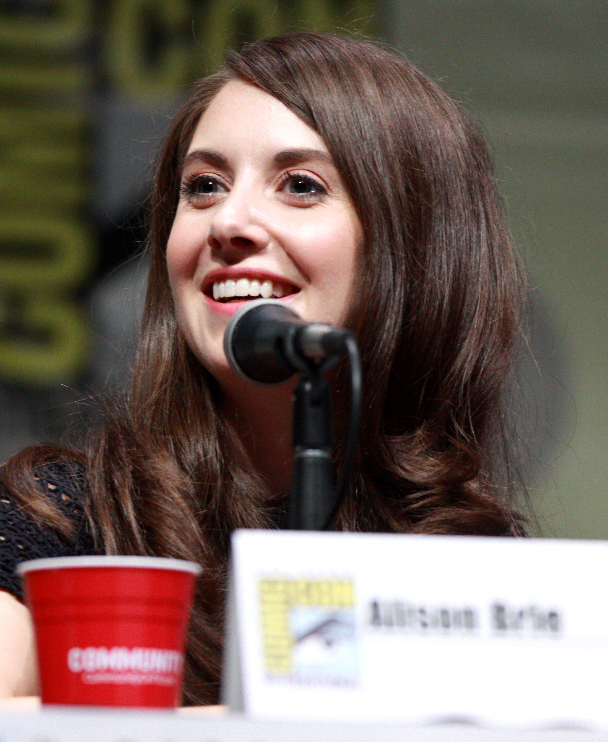 Alison Brie at the 2013 San Diego Comic Con International in San Diego, California.